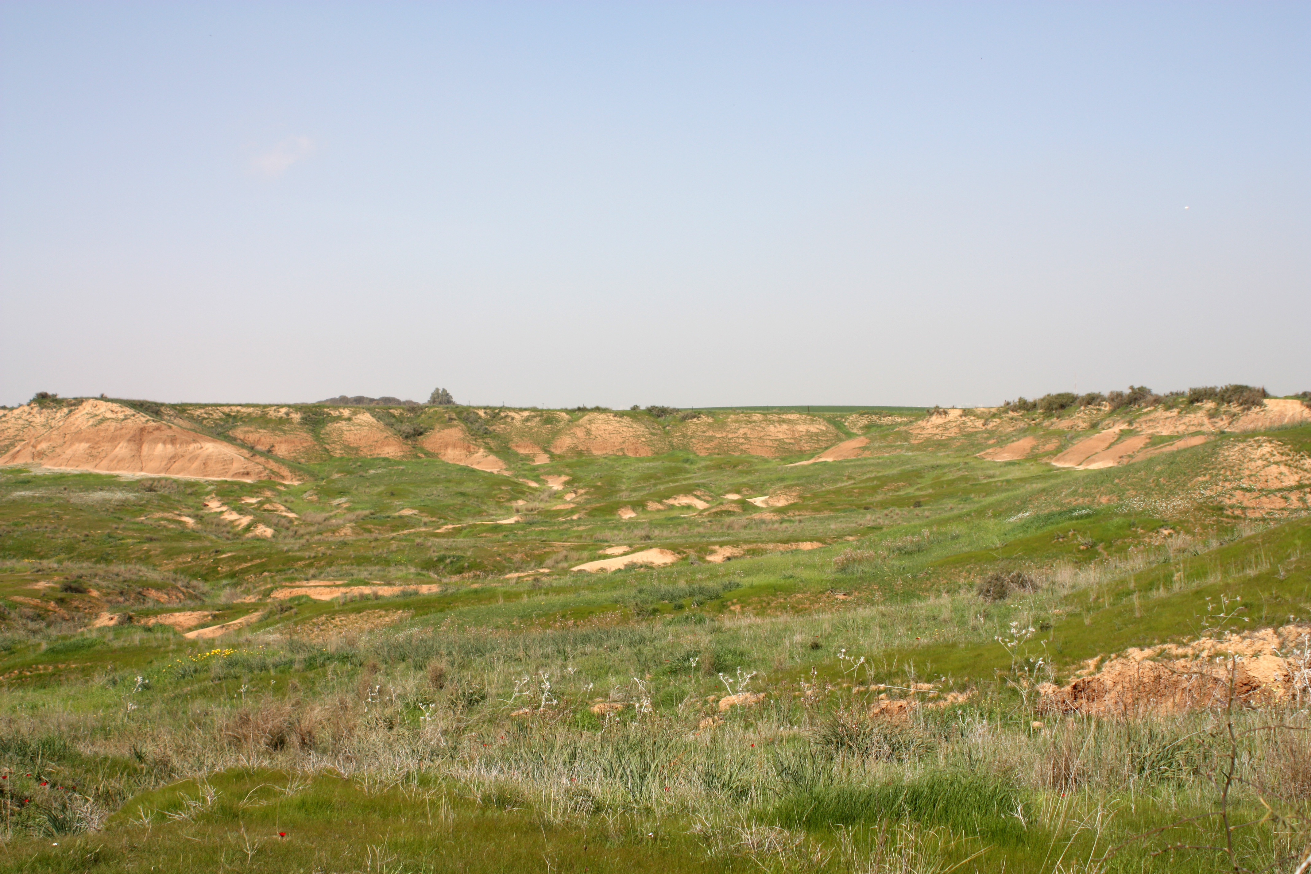 Beeri badlands in the north-west Negev, Israel